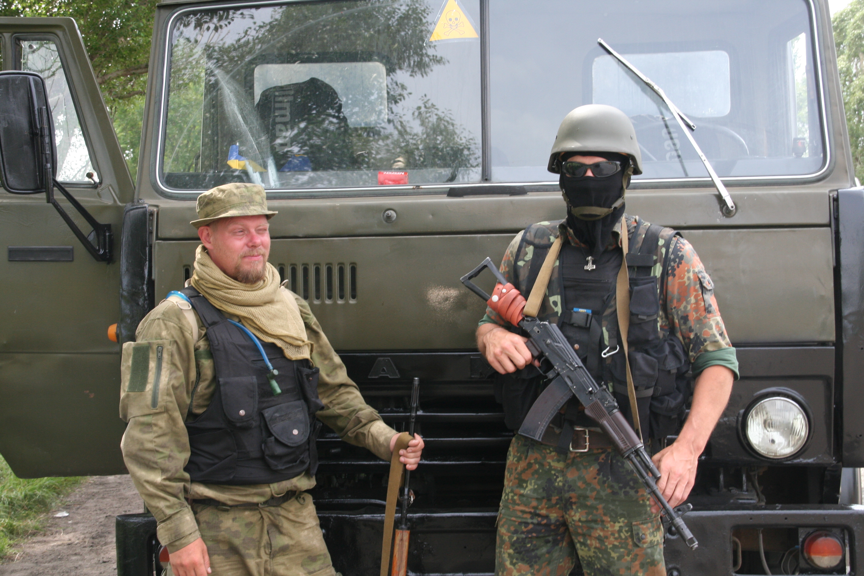 Mikael Skillt (left) and "Mikola" (right), Swedish volunteers in the Azov Battalion.